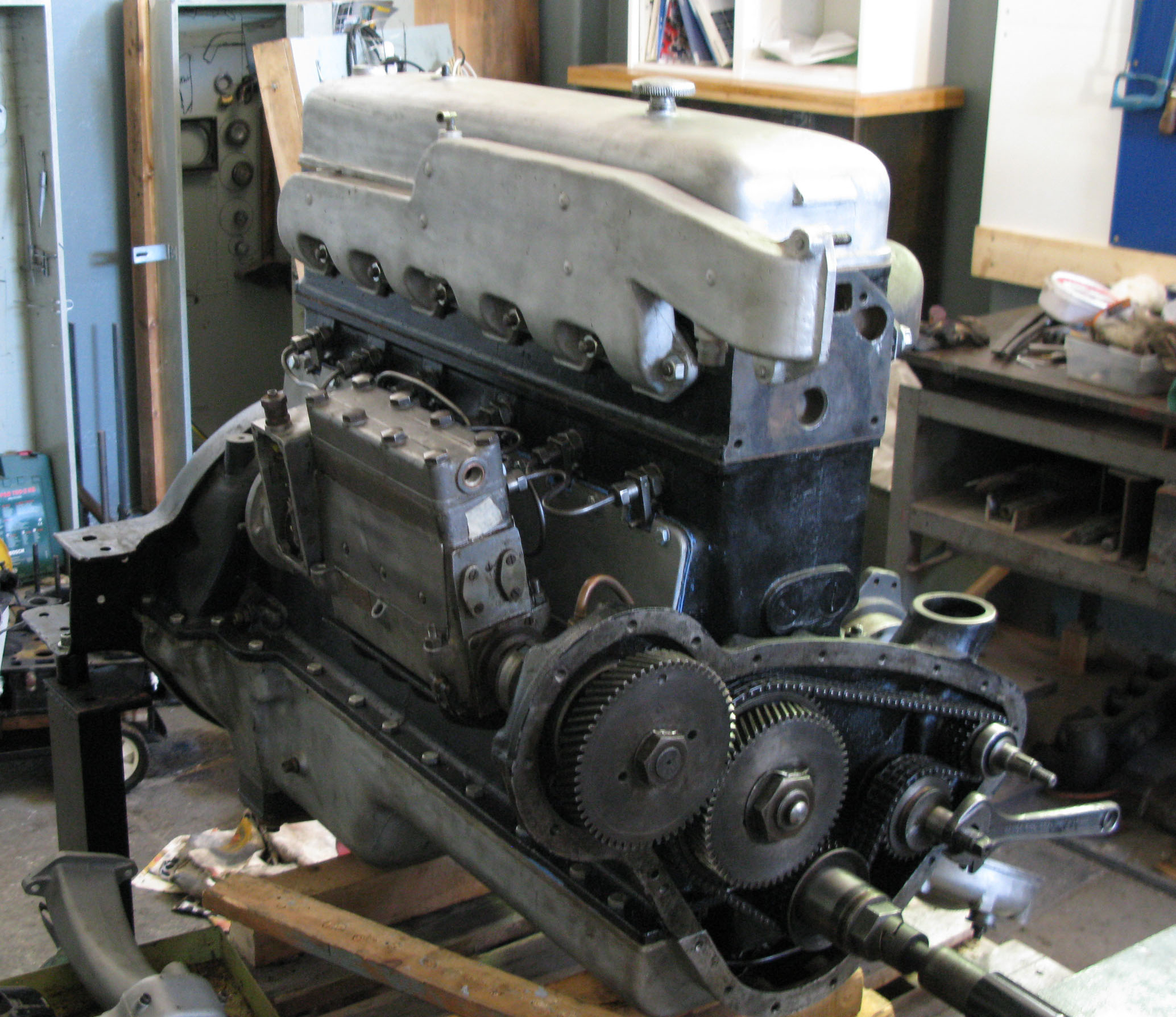 Tidaholm six cylinder ohv Hesselman engine undergoing refurbishing. Note the cog driven injection pump and the fuel injectors.Location: Tidaholms Museum